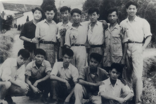 Yuan Longping in 1953 in Southwest University. Yuan in the back row, left three.